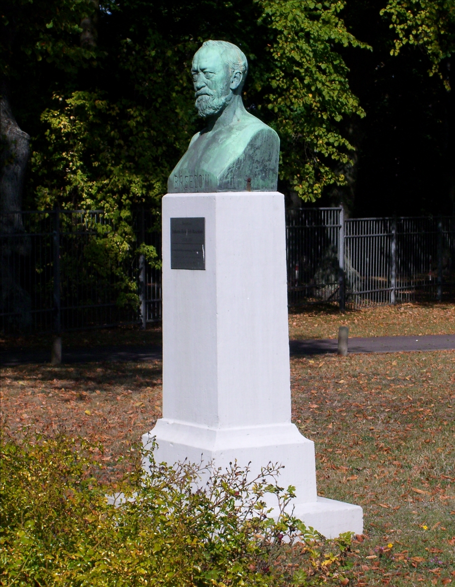 Memorial to Johann Heinrich Basedow in Schwerin, sculpted by Hugo Berwald in 1908